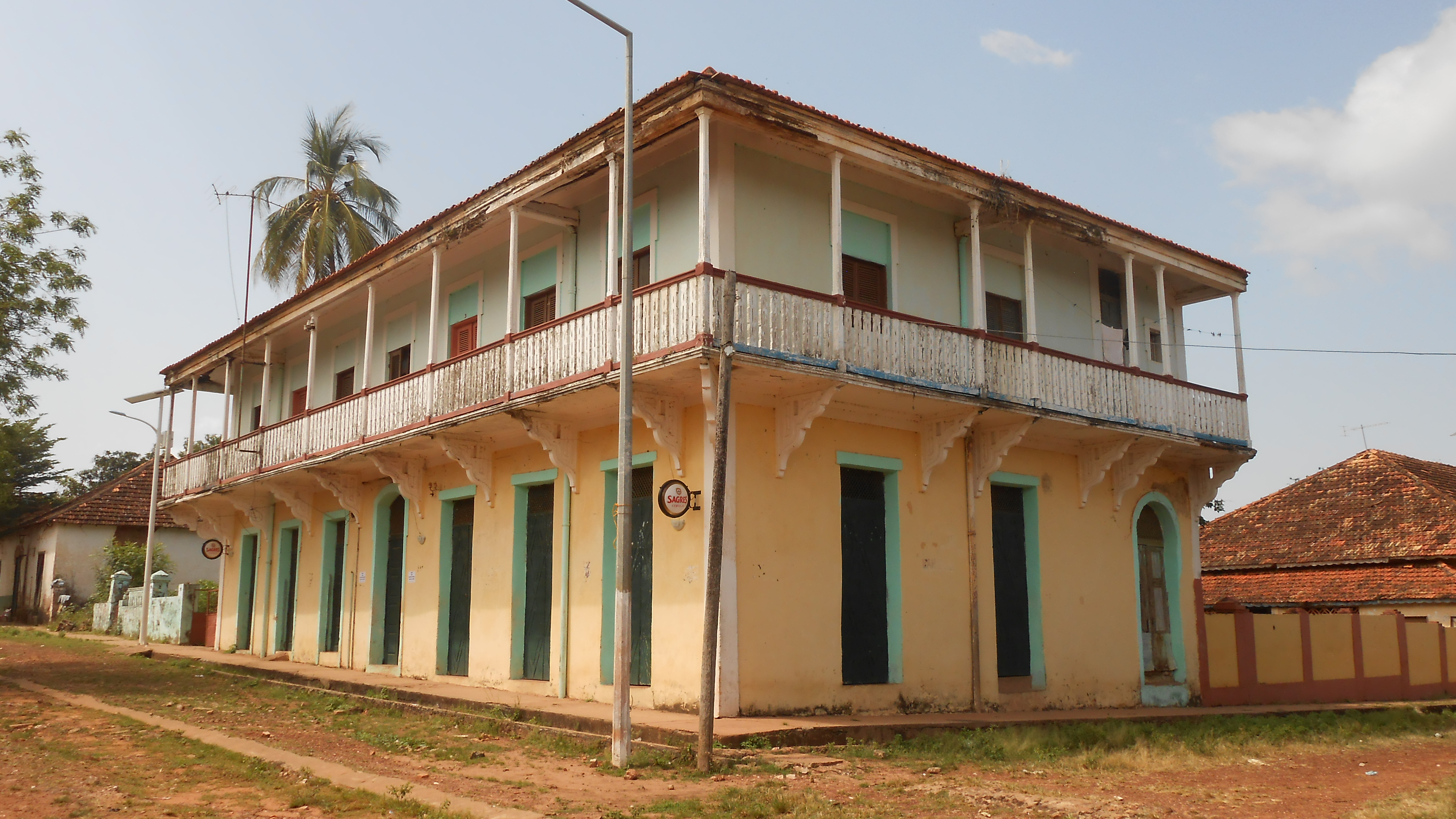 Shop with insignia of portuguese beer Sagres in a colonial building in Bolama.